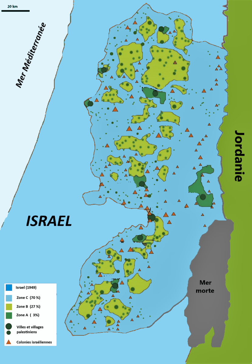 Palestinian Occupied Territories following Taba agreement and division of West Bank in 3 zones.